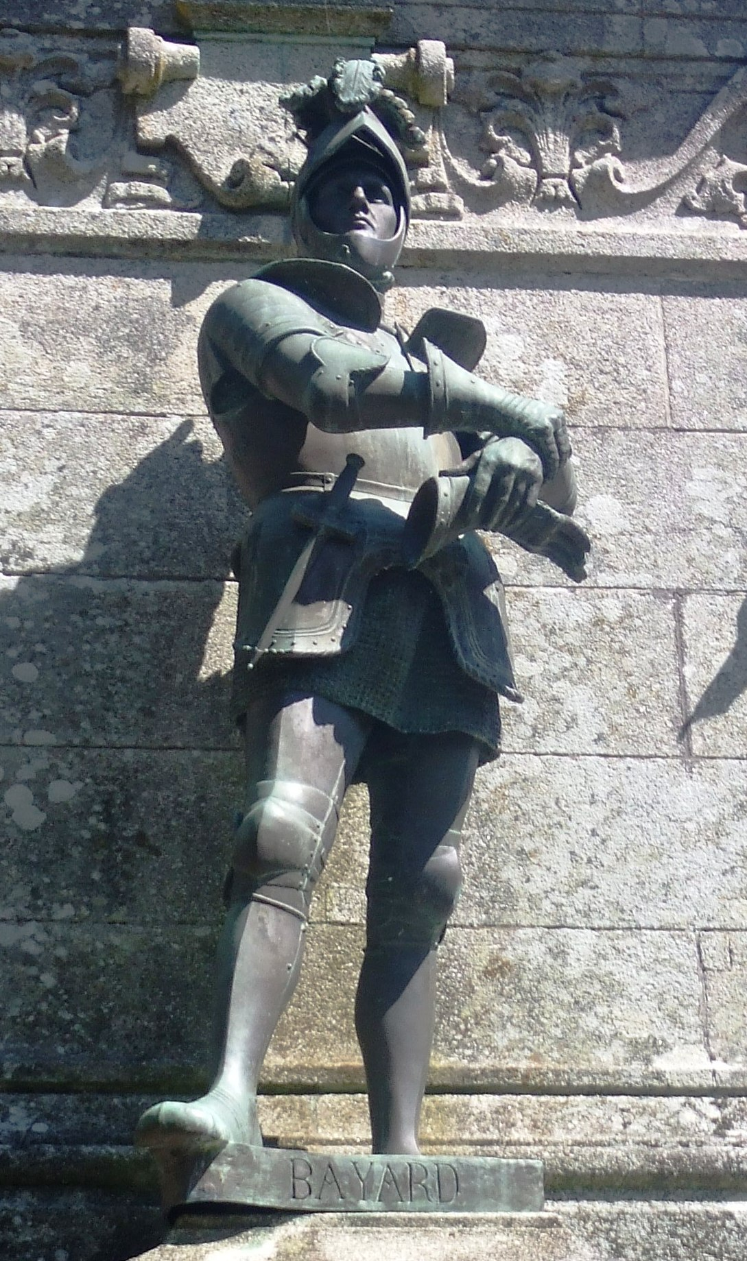 statue of Chevalier de Bayard in Sainte-Anne-d'Auray, Brittany